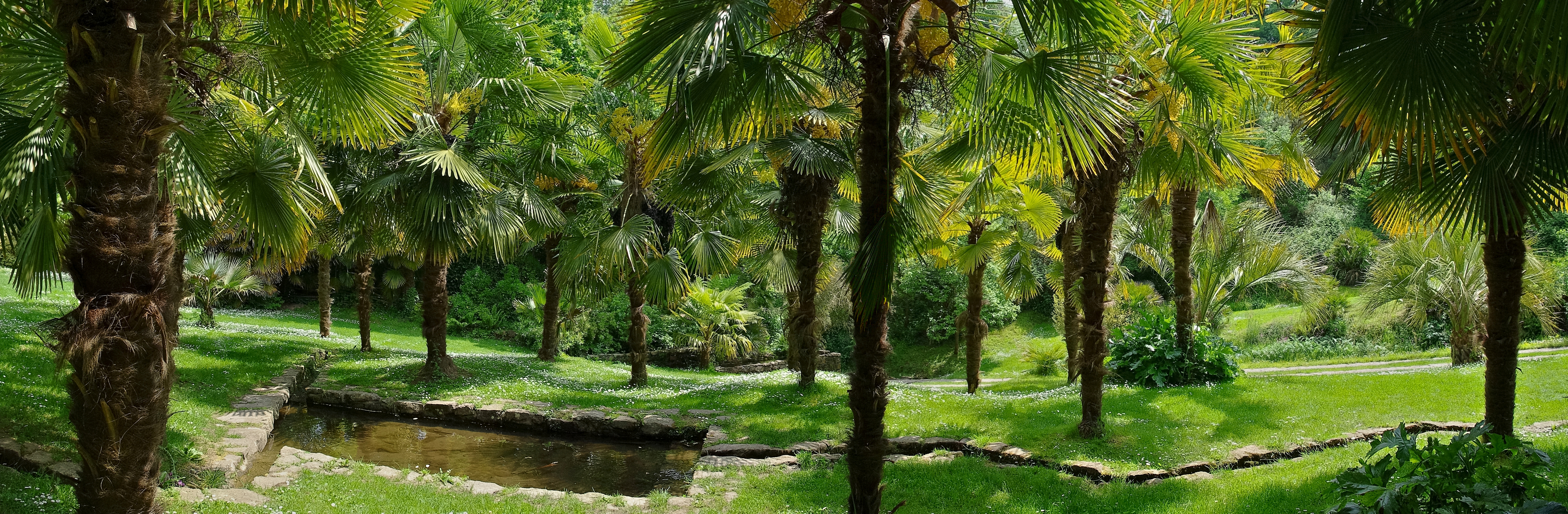 Palm grove in the park of the castle of La Roche-Jagu, Ploëzal, Côtes-d'Armor, France.